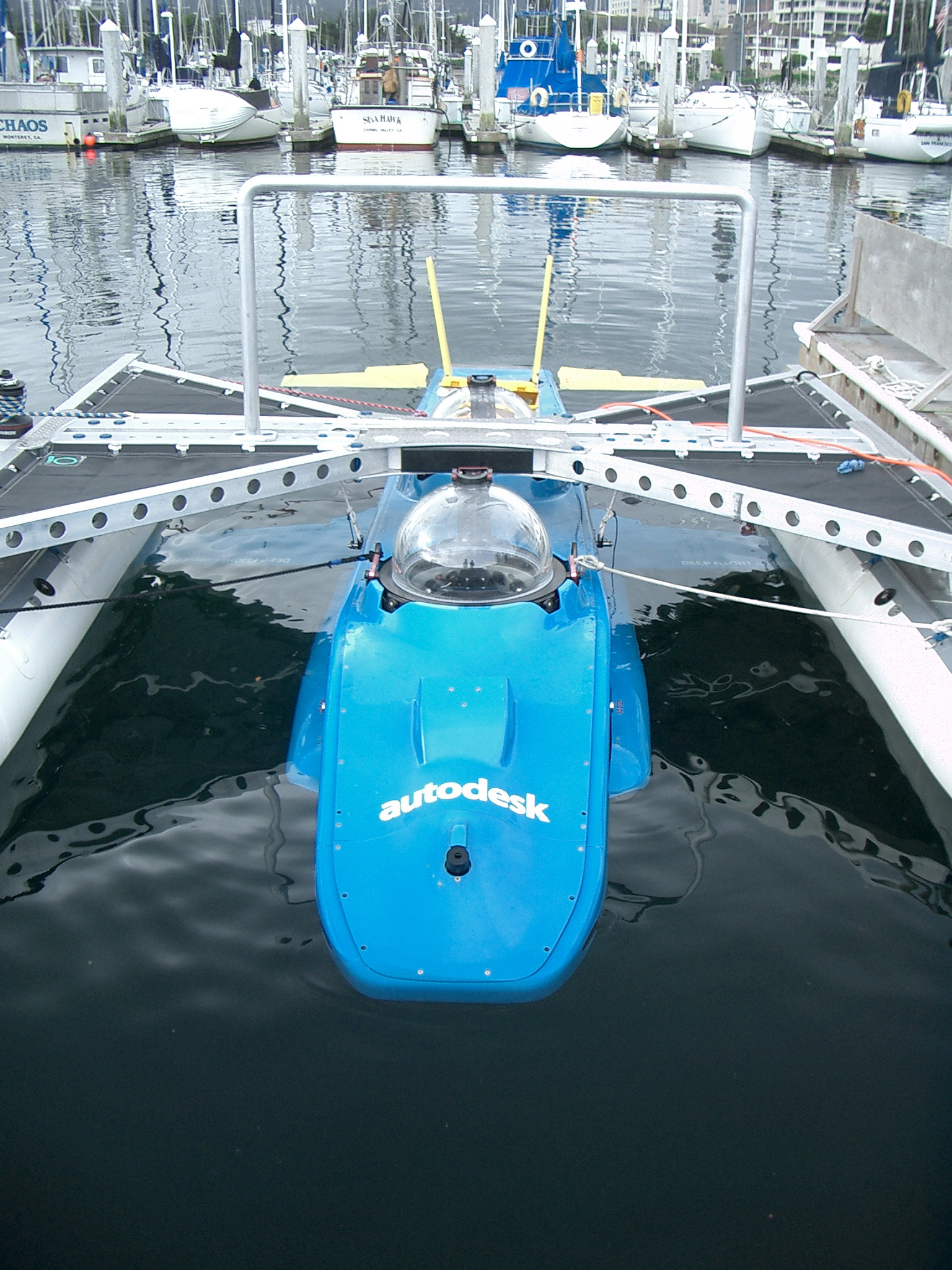 DeepFlight Aviator. Experimental Sub dive with hydrofoil in Monterey Bay. In a radical redesign of the submarine, it "flies" underwater like a plane rather than using ballast like a blimp. The designer thinks that a variation of this design can reach the bottom of the deepest trench in the ocean.Underwater Flight